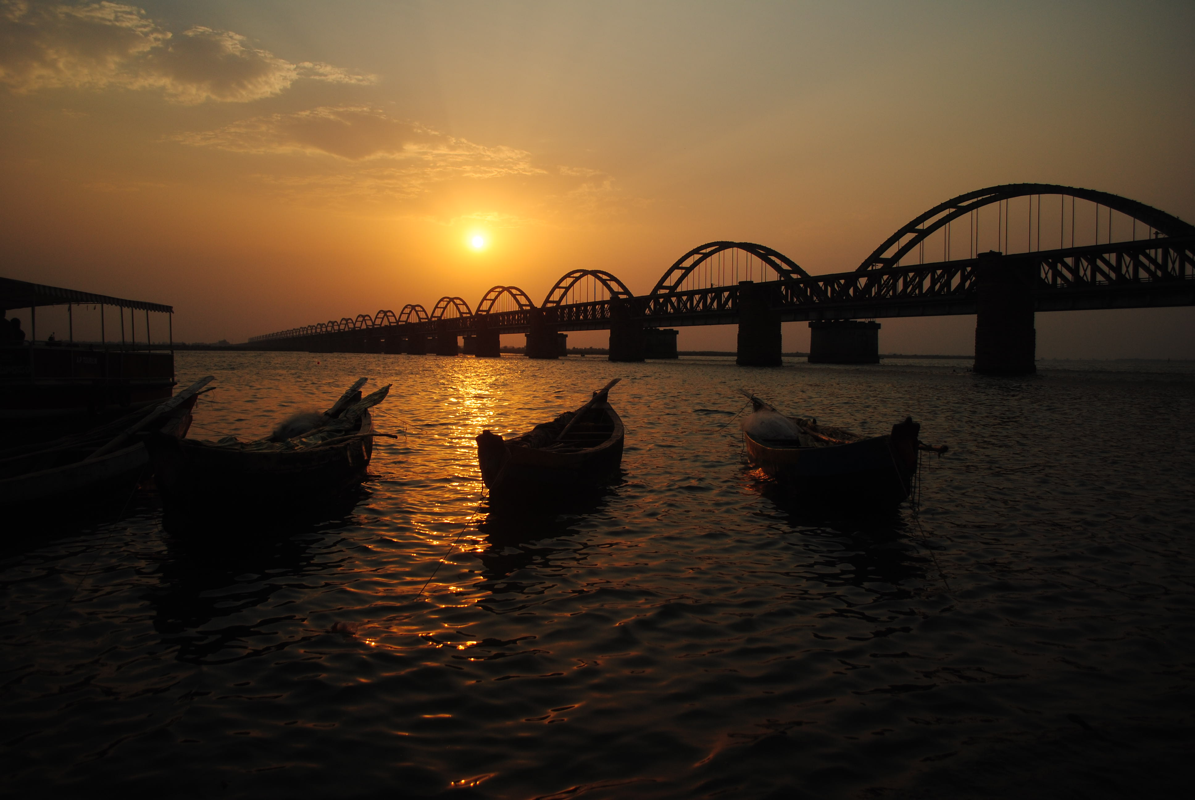 Self work Hariya1234 (talk) 17:46, 24 May 2011 (UTC)